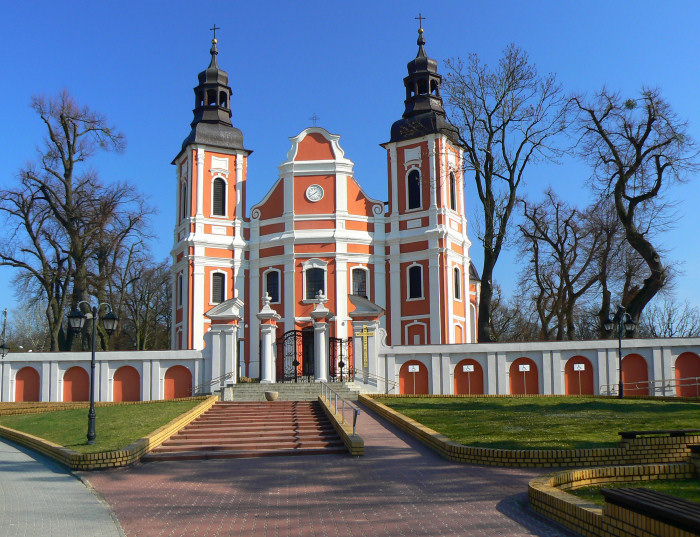 Church in Lubasz